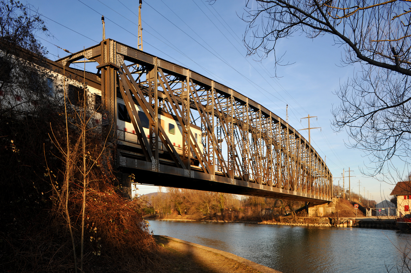 Railway bridge over the Zihl canal near Zihlbrücke; Berne and Neuchâtel, Switzerland. On the north side of the bridge, a pedestrian and cycle bridge is installed.